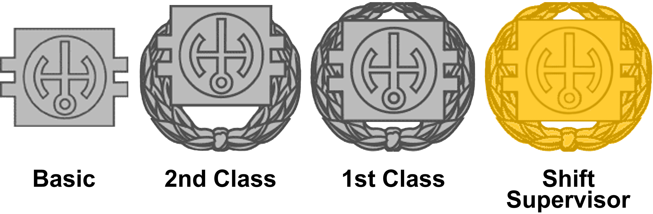 United States Army Nuclear Reactor Operator Badges. Made with Photoshop.